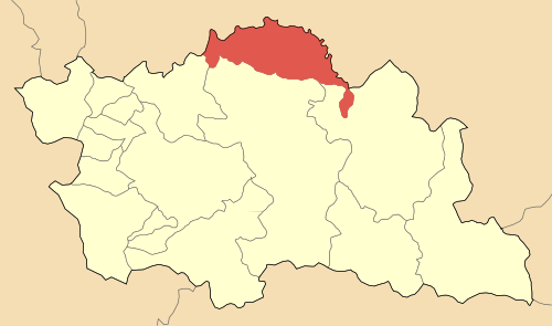 Locator map of Irakleoton municipality (Δήμος Ηρακλεωτών) at Grevena perfecture, Greece.